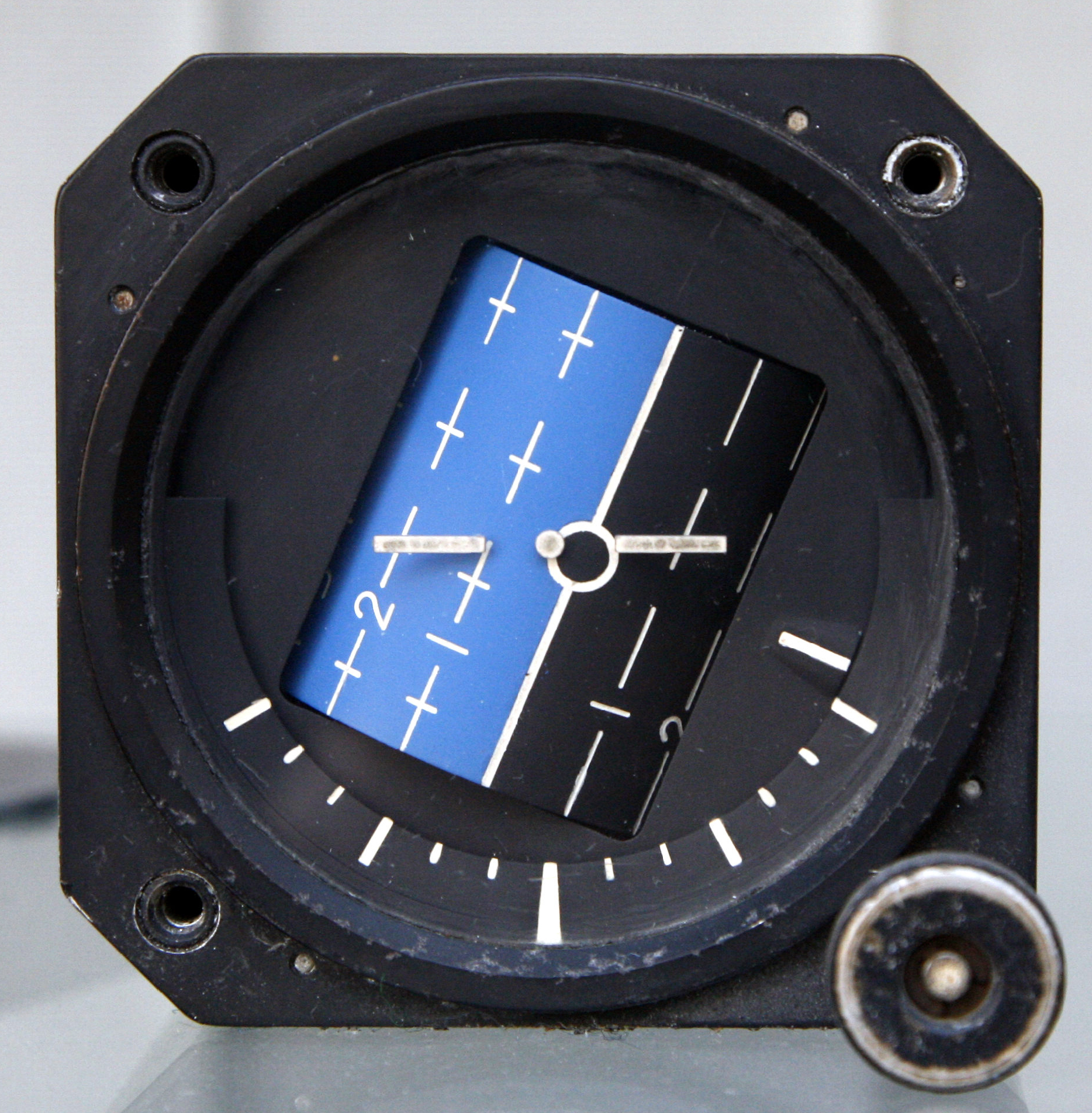 Attitude indicator